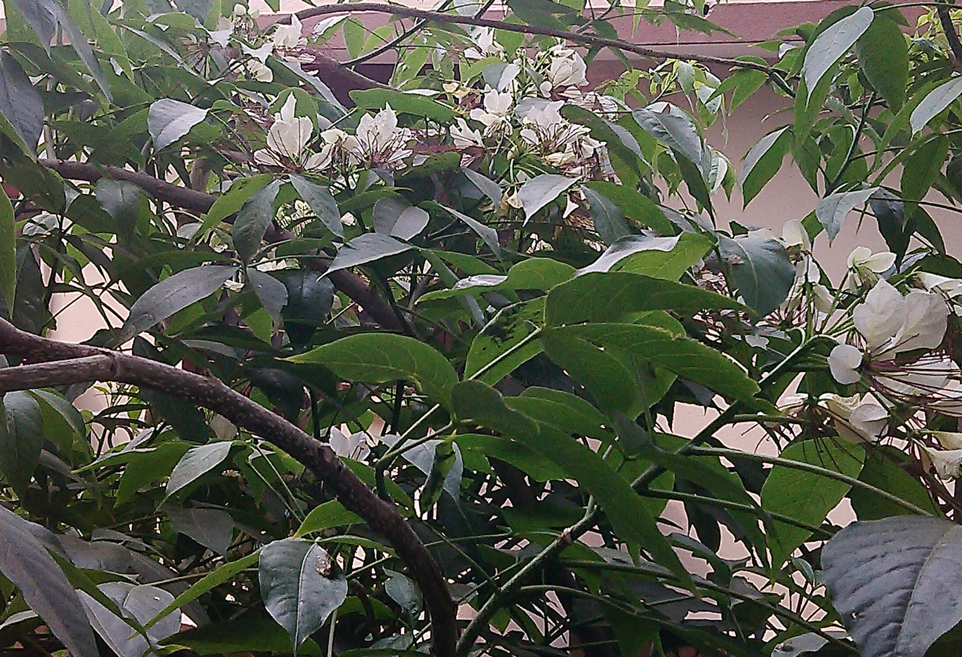 Crateva unilocularis with flower in Nepal.